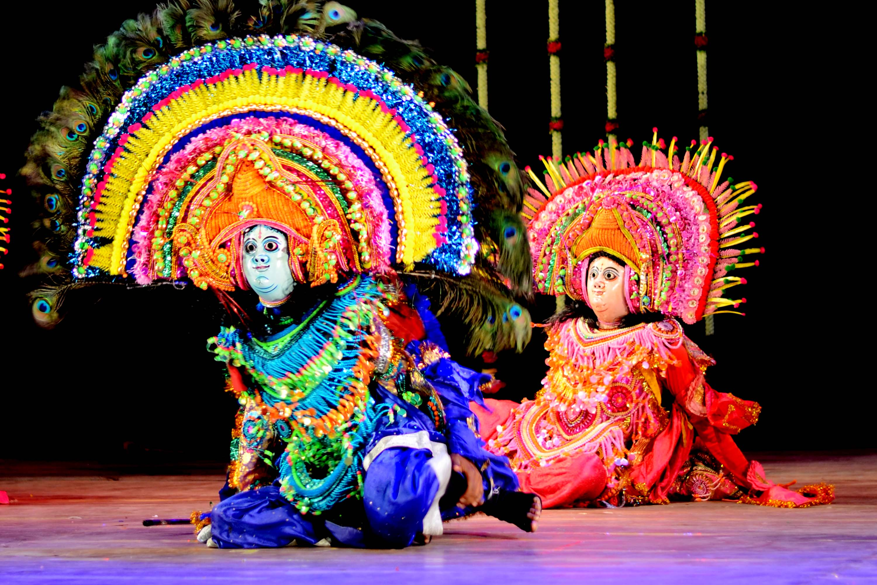 Artistes from Purulia district of West Bengal performs Chhau dance